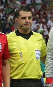 Iran and Spain match at the FIFA World Cup 2018